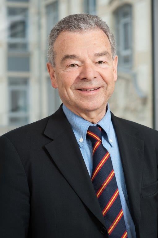 Dr. Peter Becker